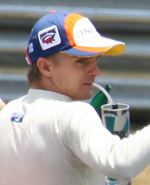 Formula One 2007 Rd.17 Brazilian GP: The stig (Renault) at the drivers parade.